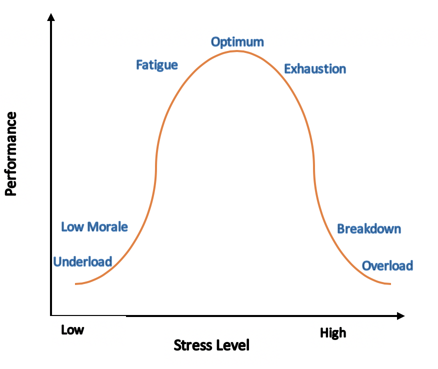 A graph of the allostatic load model, depending on stress and performance.